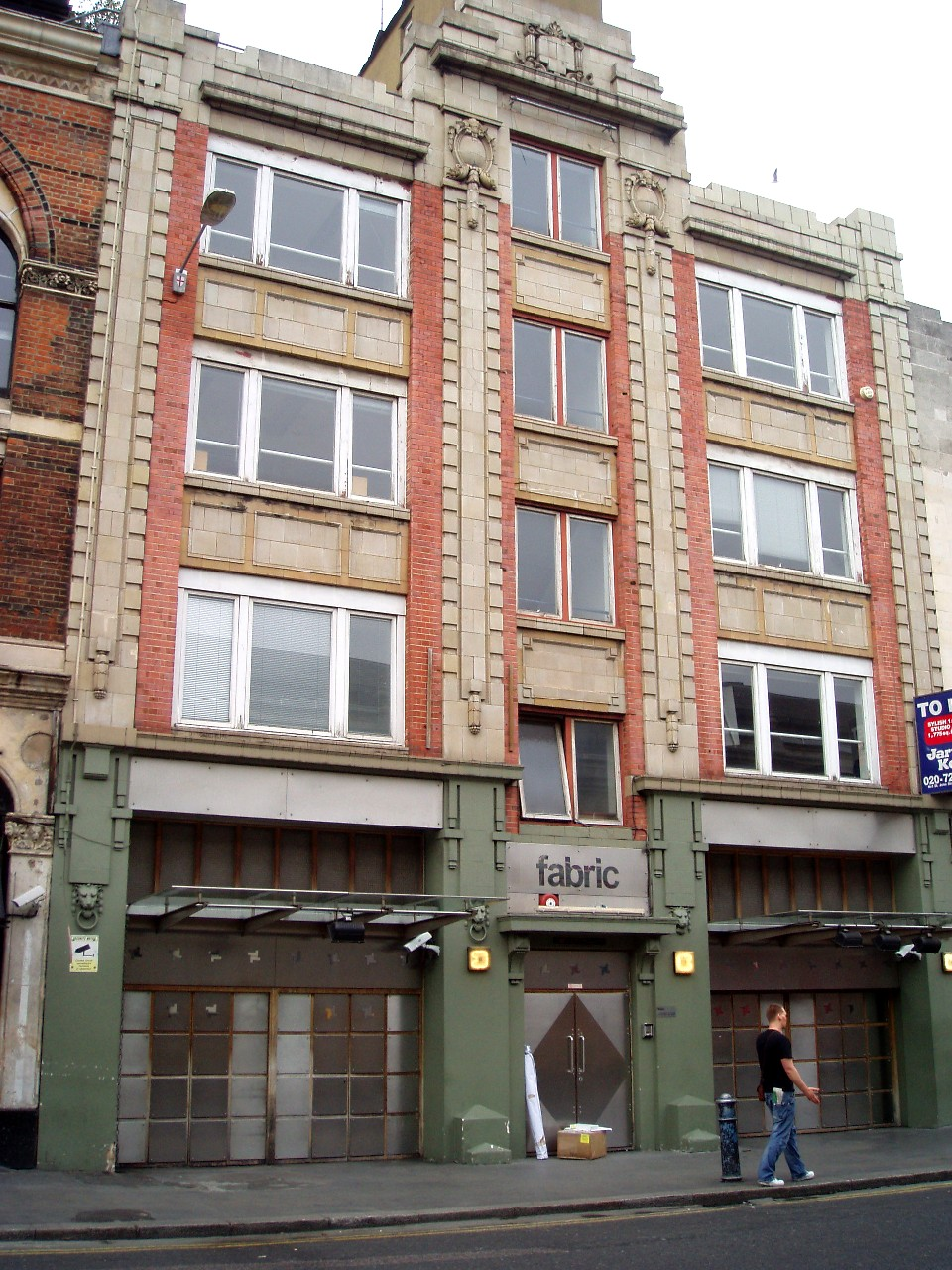 Fabric Original caption: A huge club opposite Smithfield Market.